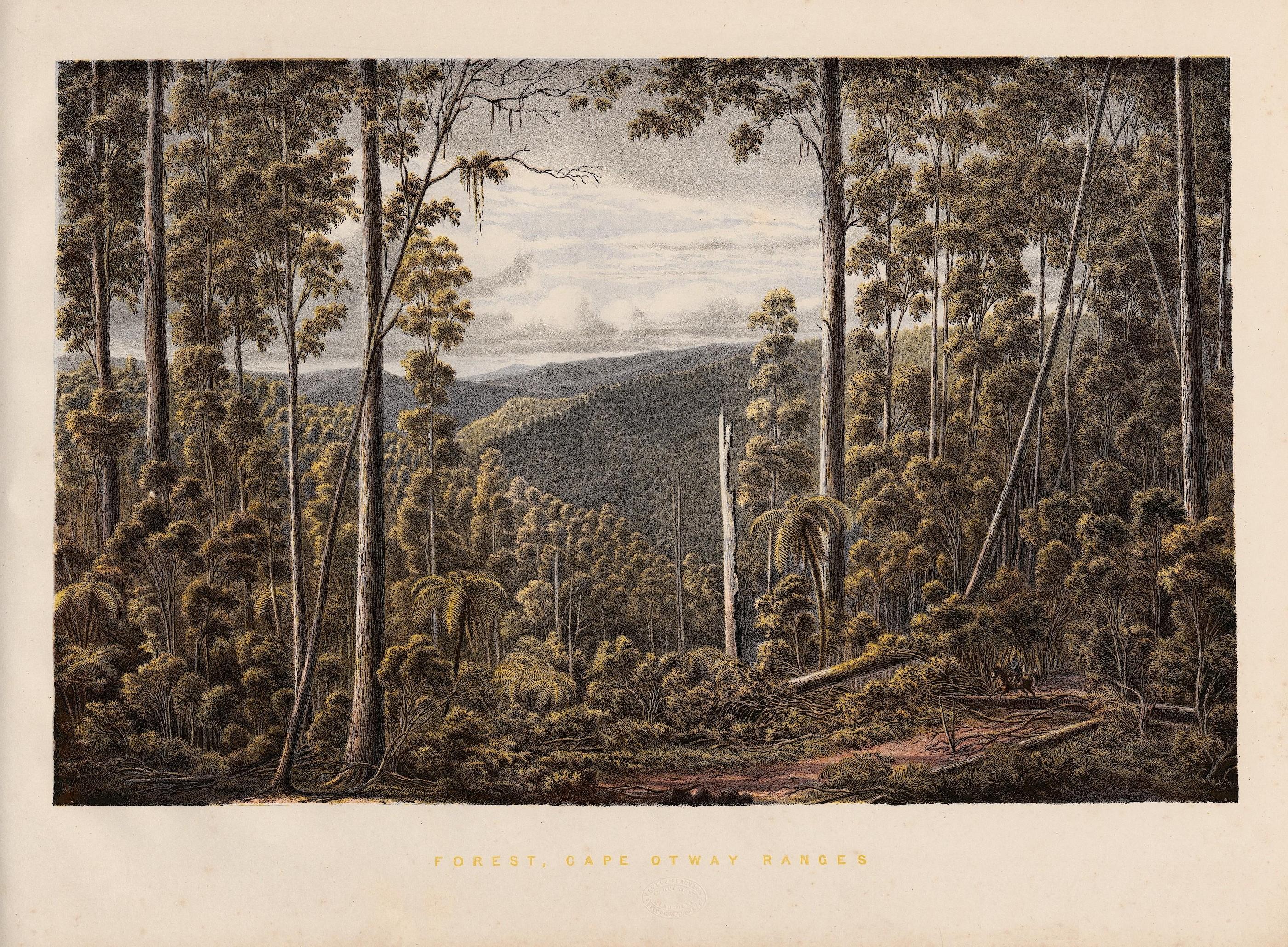 von Guérard wrote: "The journey is about as difficult as the physical features of the declivitous and thickly-wooded ranges are grand and romantic; and it is only at rare intervals that the tourist obtains such a glimpse of the mountain slopes, and wide-spreading forests as the artist has succeeded in doing at the spot which forms the foreground of the accompanying landscape. Lying about a hundred miles from Melbourne, as the crow flies, this tract of country is comparatively a terra incognita; so impenetrable is the jungle, and so vast the scope of the boundless forests, filled with battalions upon battalions of towering trees, the more eminent of which rise to an altitude of 300 feet."